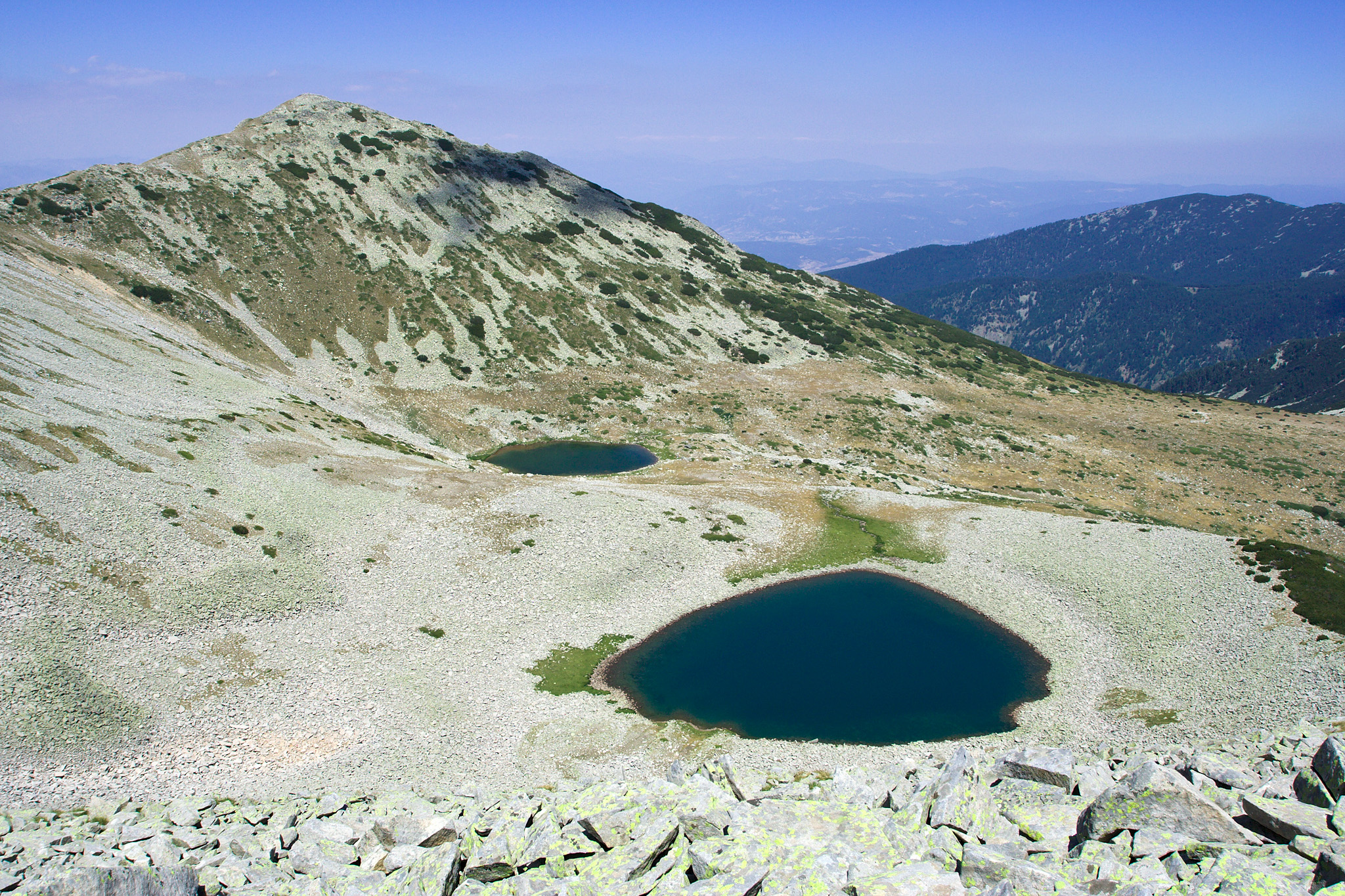 Todorini lakes, Pirin Mountain, Bulgaria